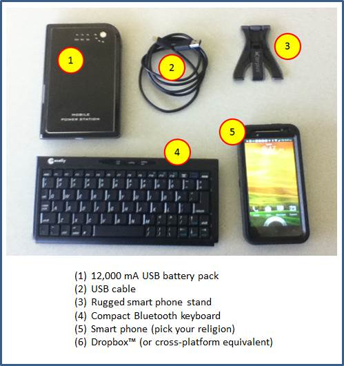 Essential components of Bring Your Own Device (BYOD) in K12 education